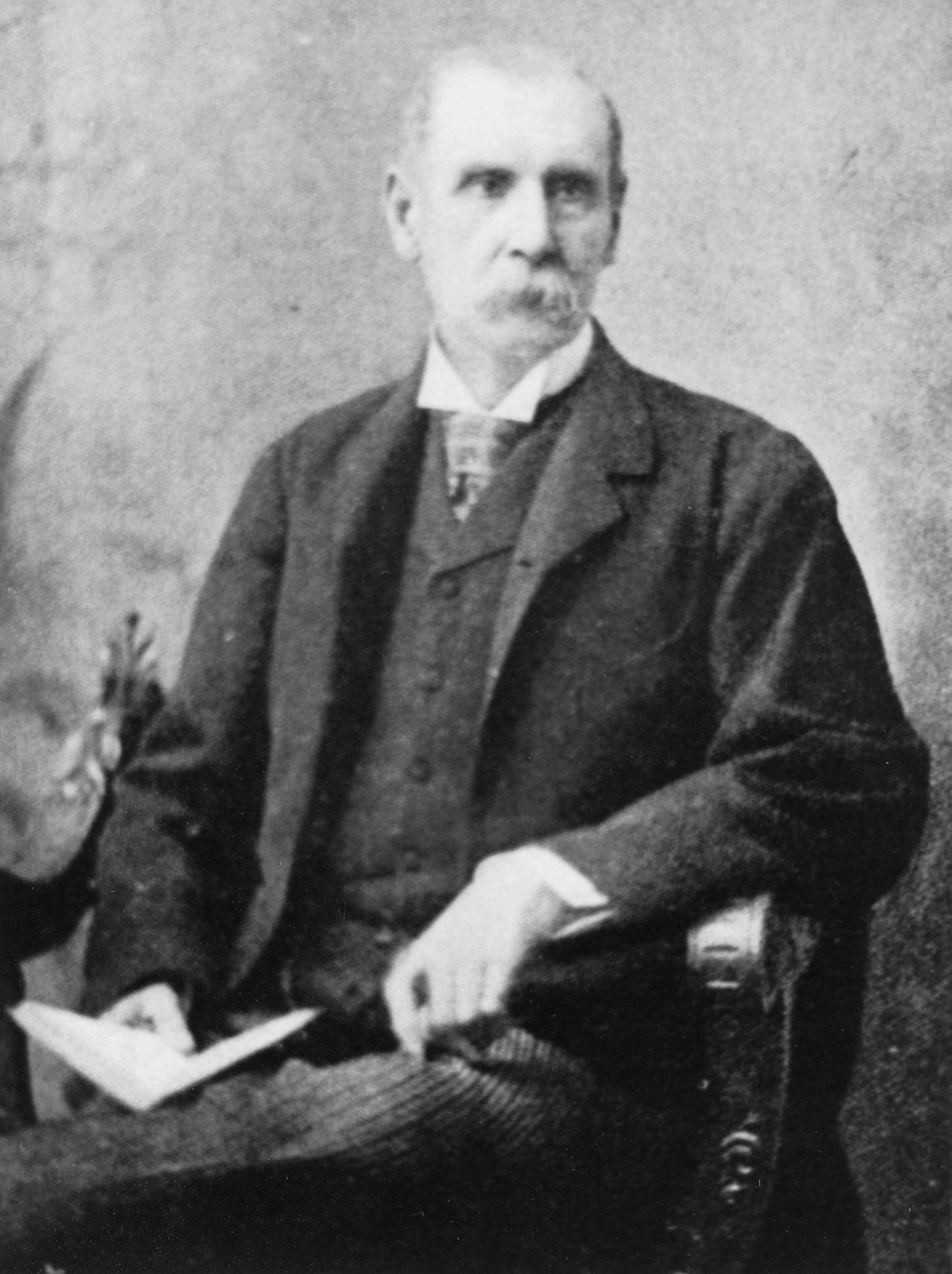 Victoria Cross Winners- Pre 1914 Mr William Fraser McDonell, Bengal Civil Service, awarded the Victoria Cross, Arrah, Indian Mutiny, 30 July 1857.